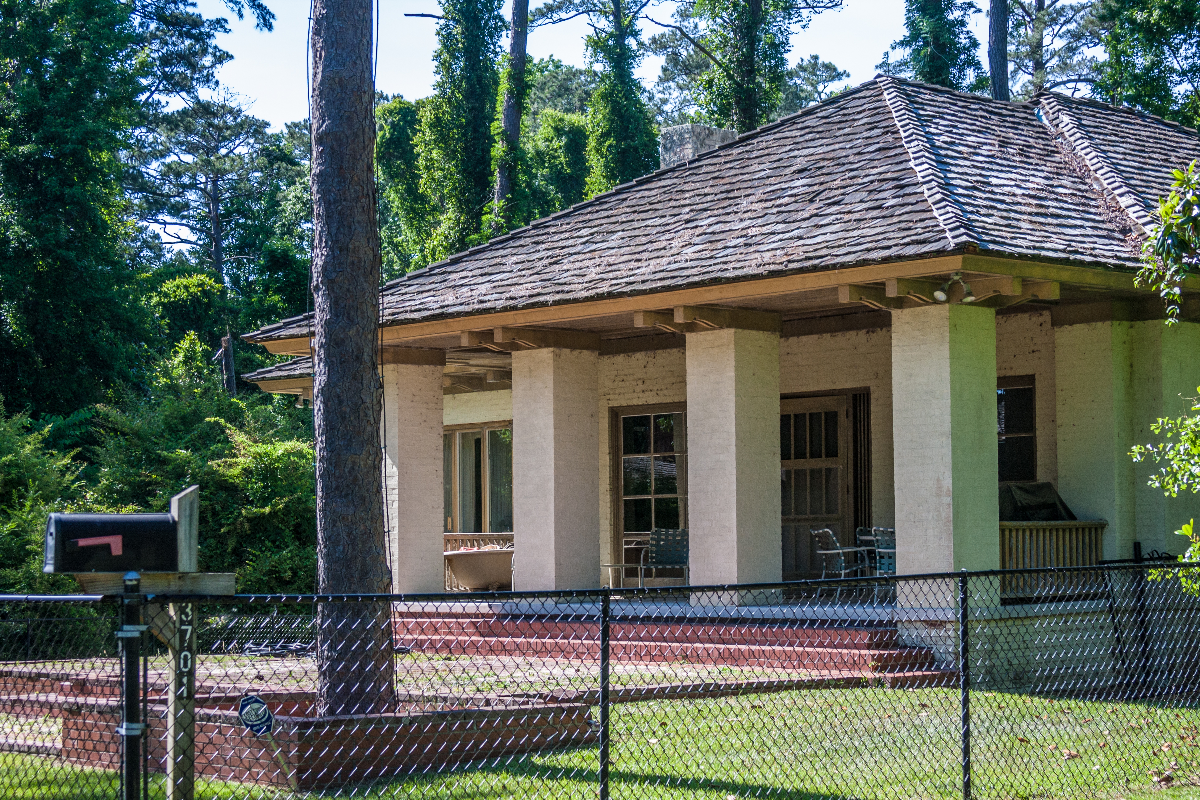 Sloan House, New Bern, NC